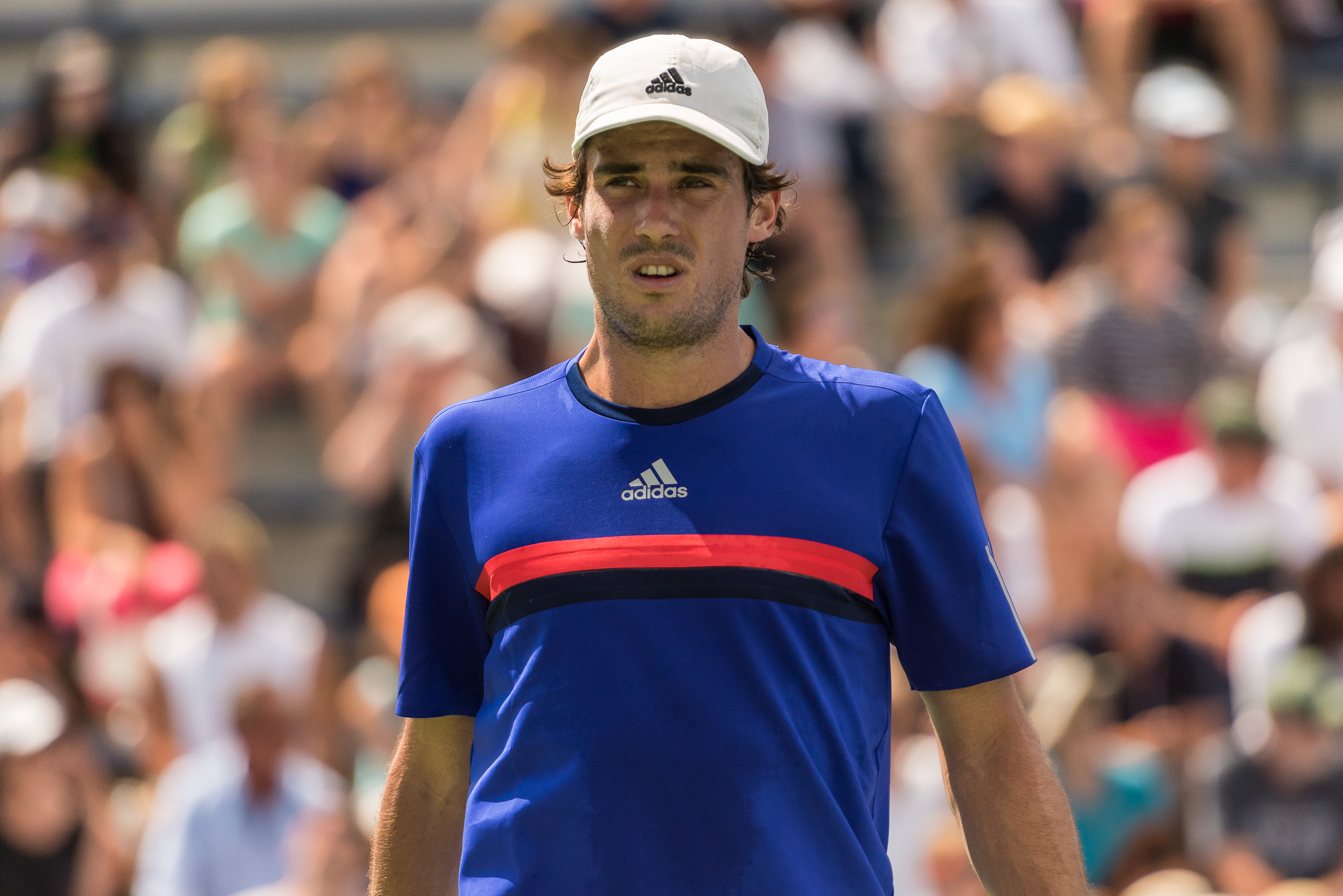 August 27, 2015 Court 11 Flushing, NY